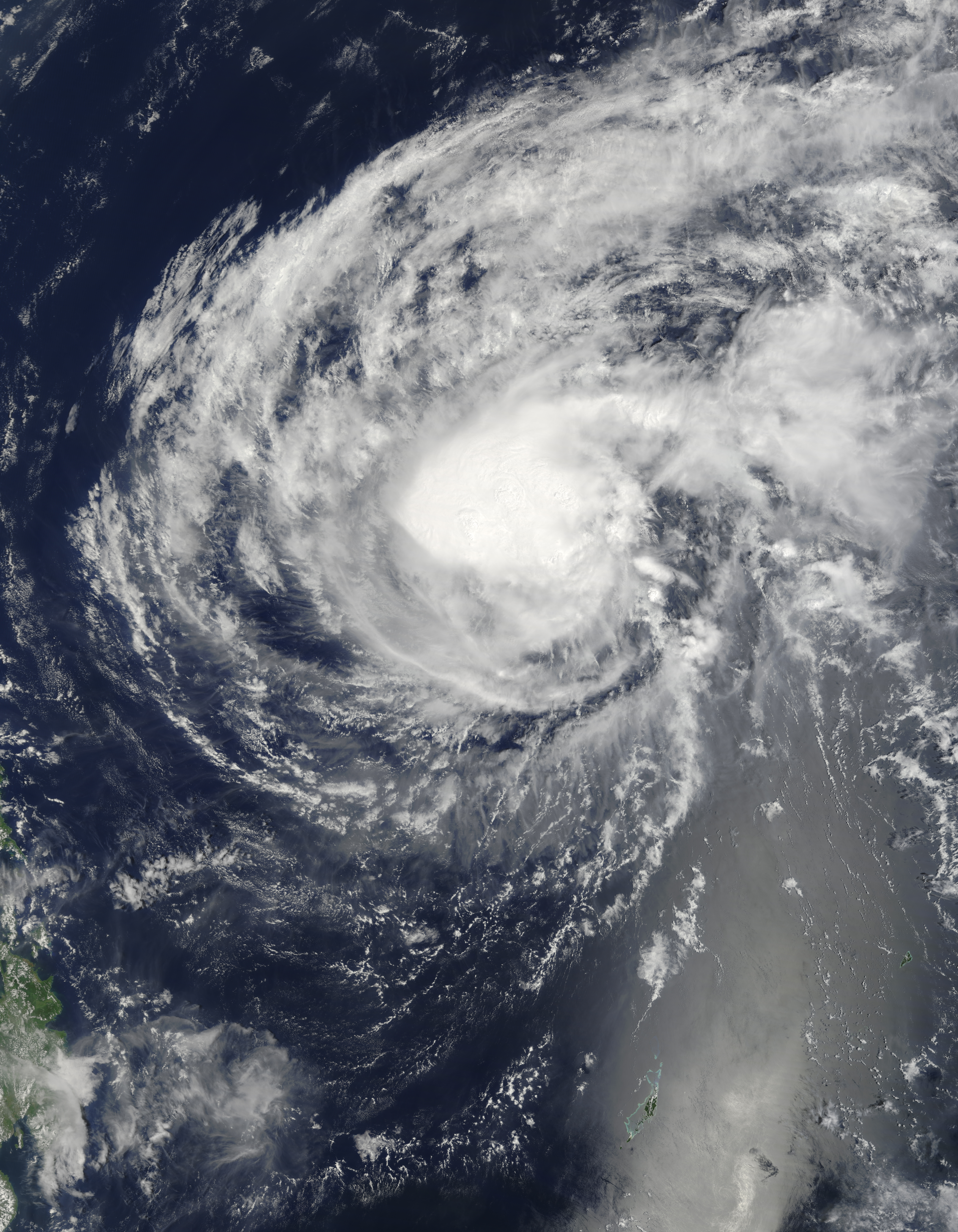 The Moderate Resolution Imaging Spectroradiometer (MODIS) on NASA’s Terra satellite captured this natural-color, high definition image of Tropical Storm Omais 02w,the second storm of the 2010 Pacific Typhoon Season, with its exposed low level circulation center located south of the bulk of thunderclouds on March 25, 2010, at 01:35(UTC)